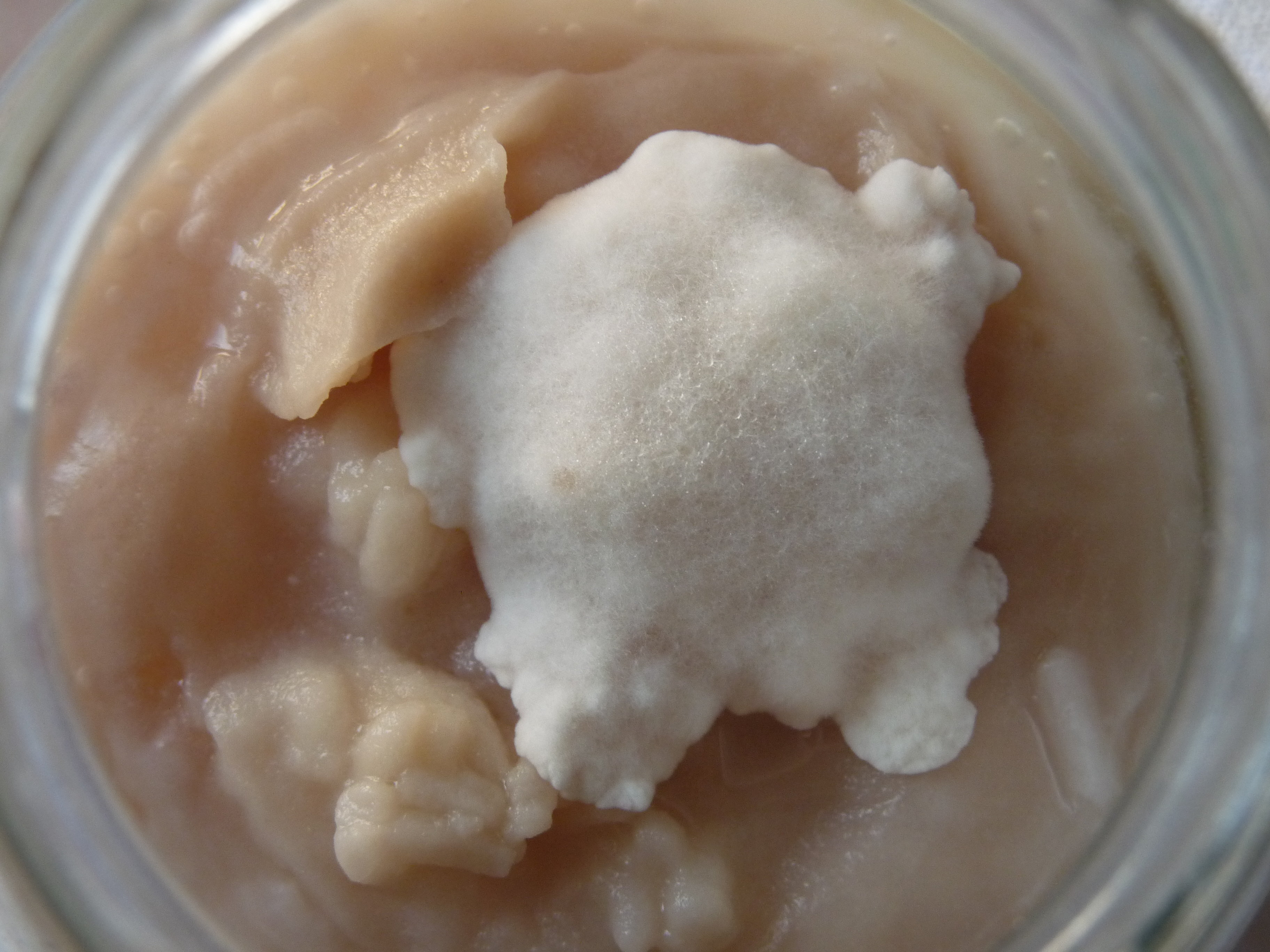 Rhizopus Oryzae (pure strain grown on rice from Angel Brand Jiuqu)